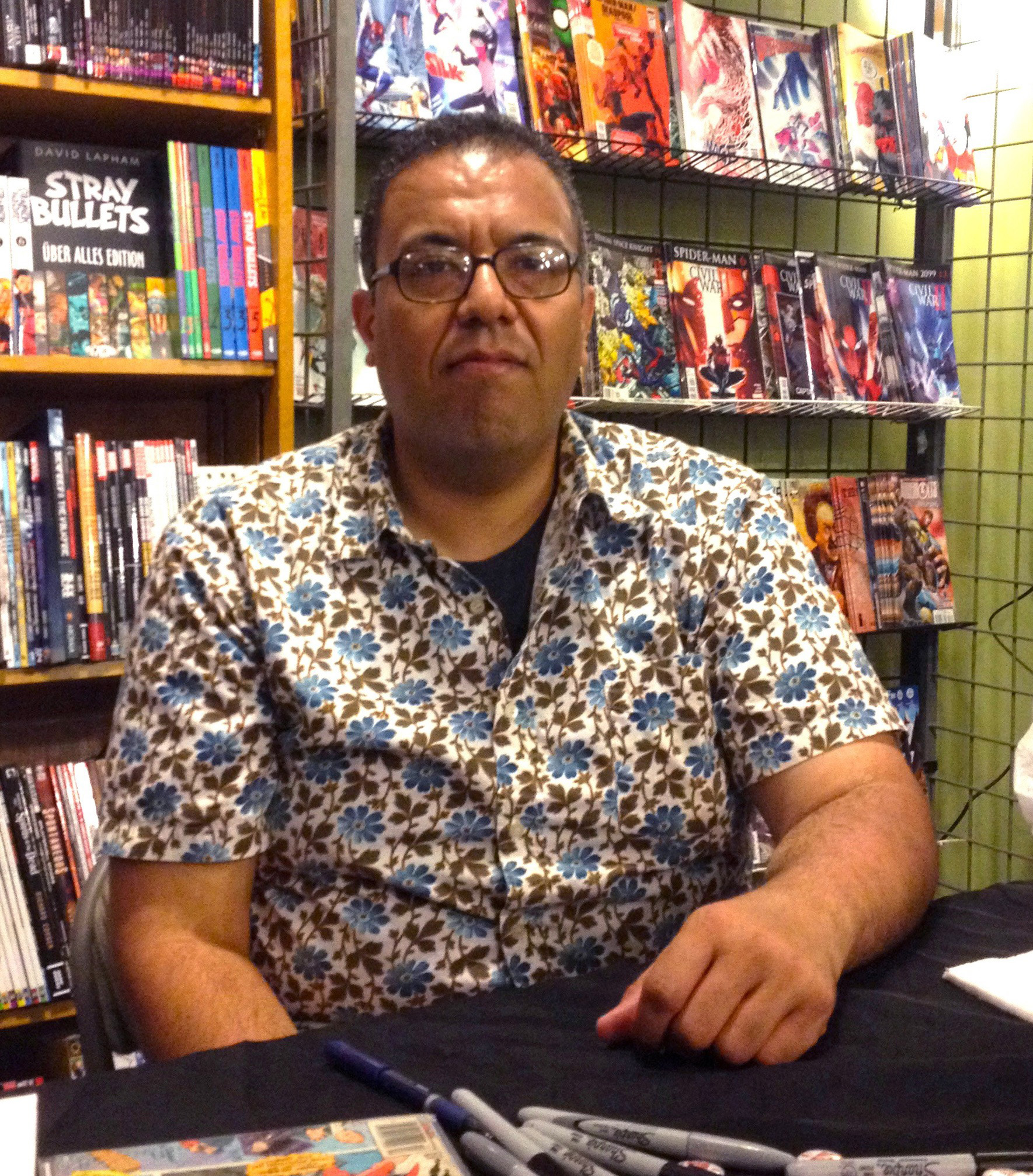 Comics writer and journalist George Khoury at an August 24, 2016 signing for his book, Comic Book Fever, at JHU Comics in Manhattan. This photo was created by Luigi Novi. It is not in the public domain, and use of this file outside of the licensing terms is a copyright violation.